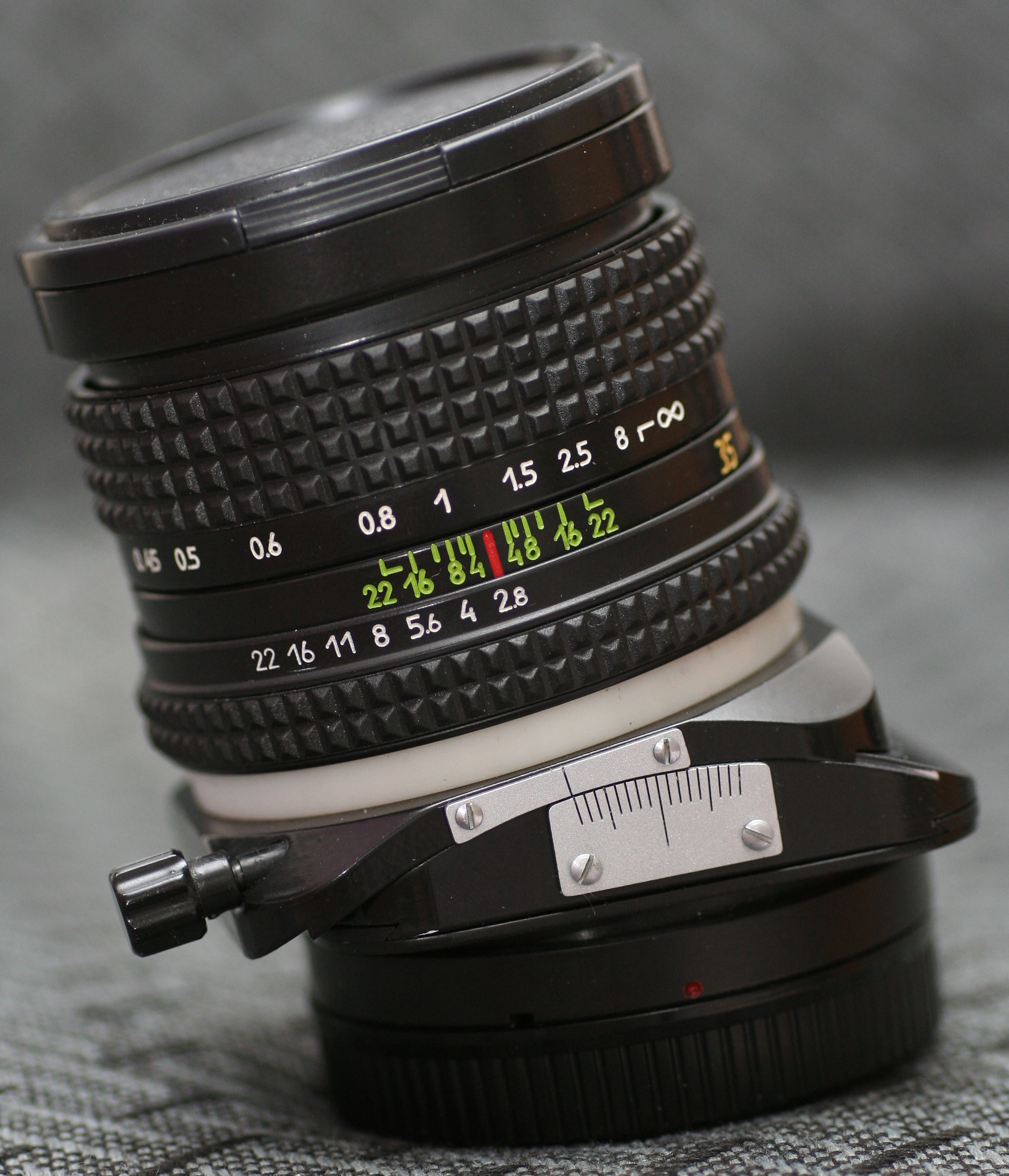 MC ARAX 2.8/35mm Tilt & Shift lens.